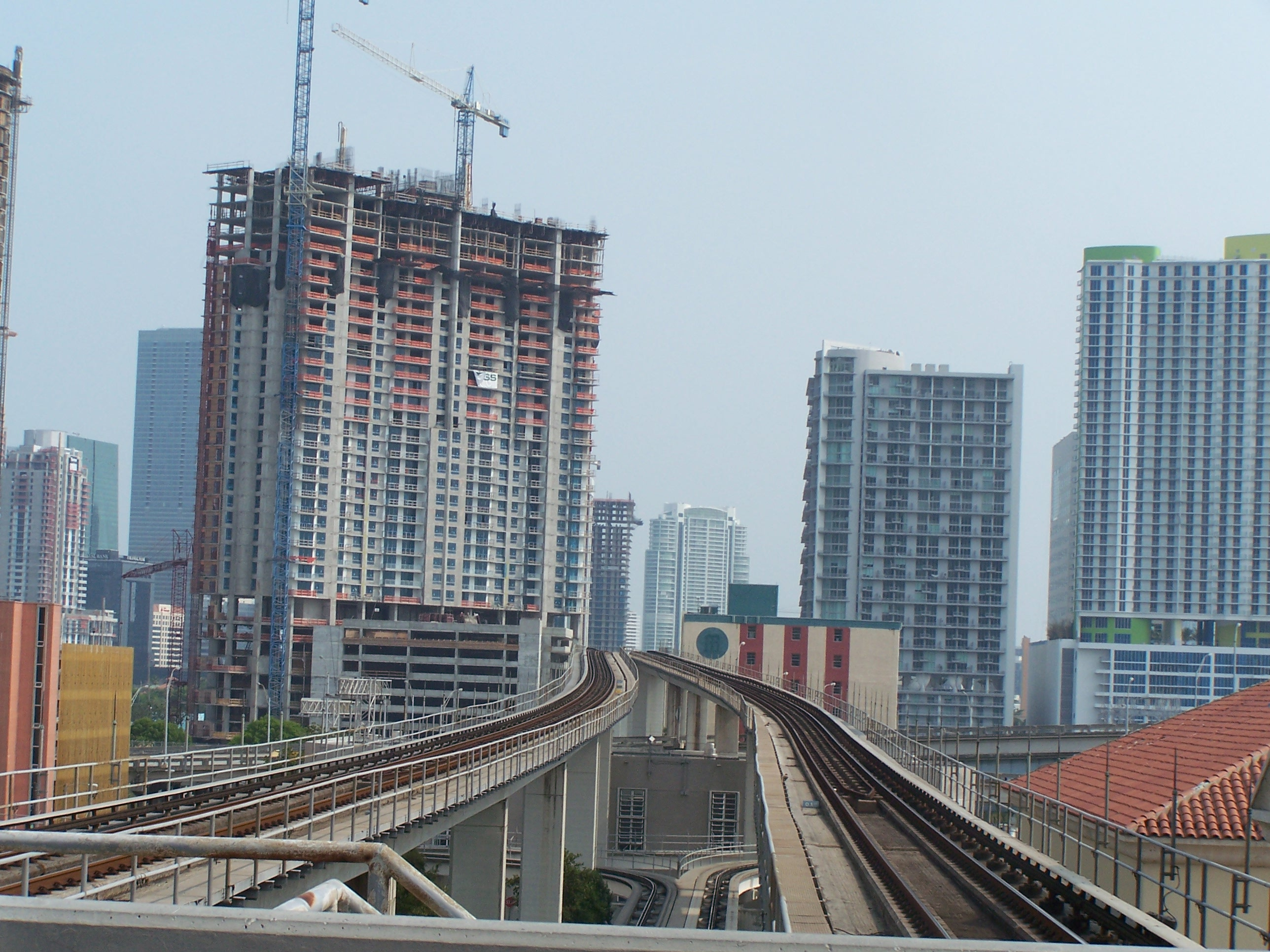 Metrorail and Metromover USA, 5/13/07.